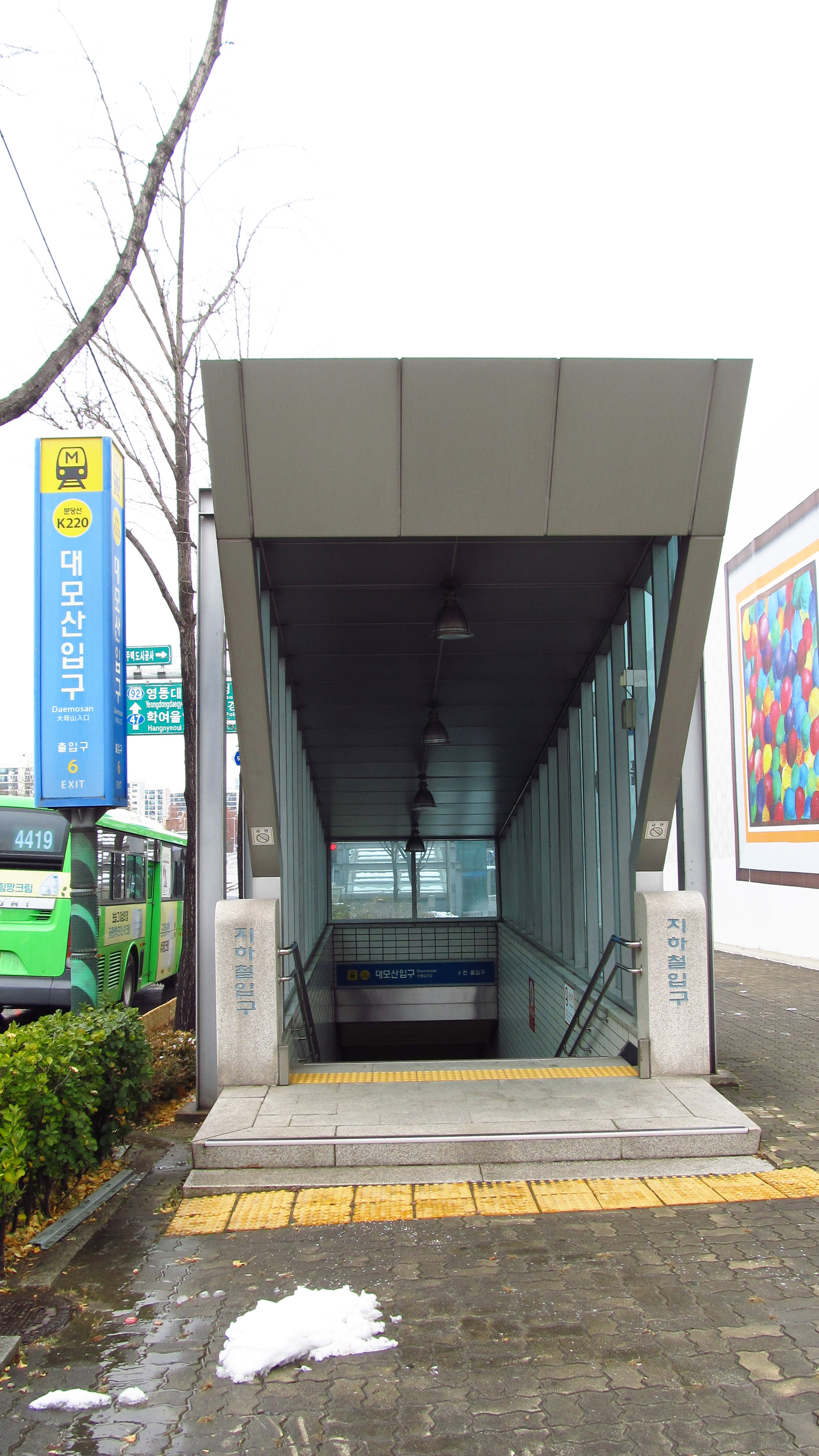 The no.6 entrance to Daemosan Station on Bundang Line in Gangnam-gu, Seoul, Republic of Korea(South Korea)